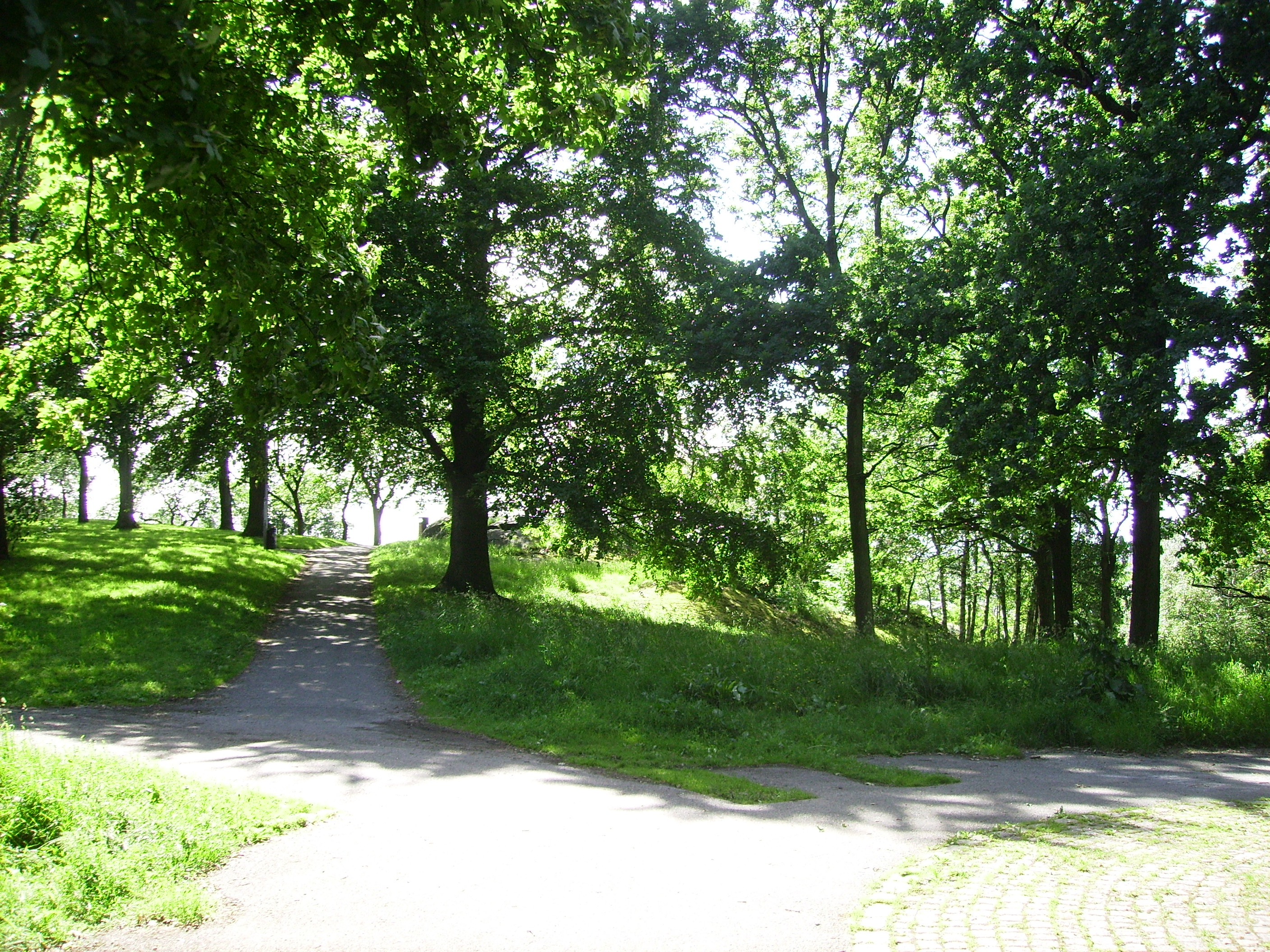 Picture of Redbergsparken in Gothenburg